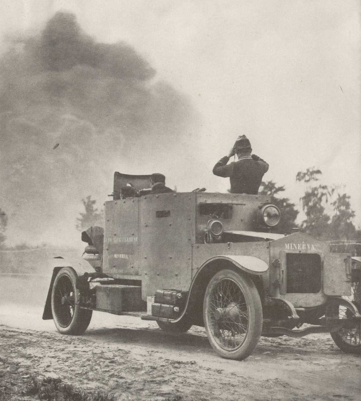 Minerva armored car, model 1914 near Antwerp WW1.